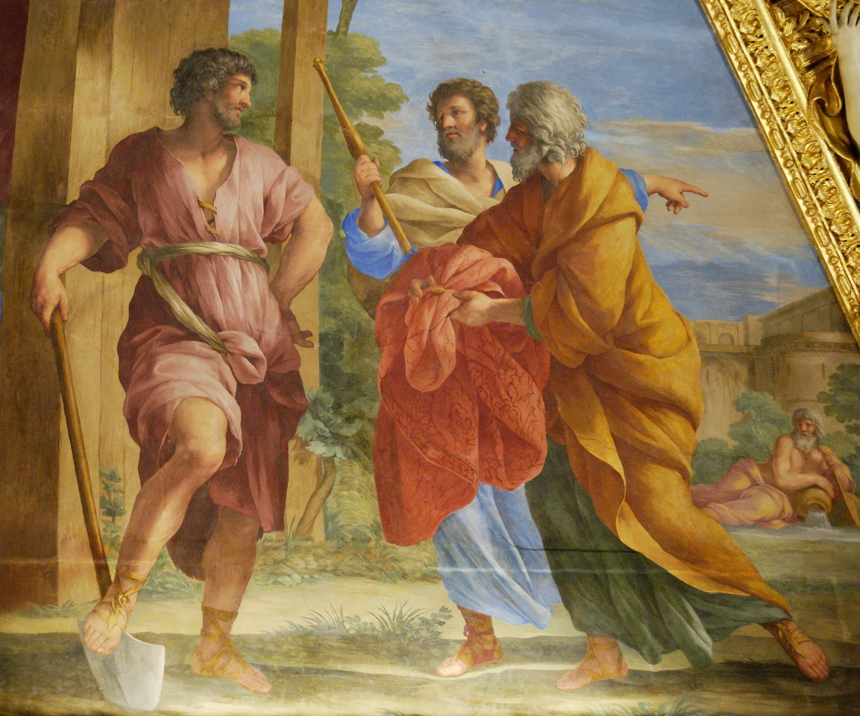 Cincinnatus chosen as dictator. Fresco, 1655-1658.